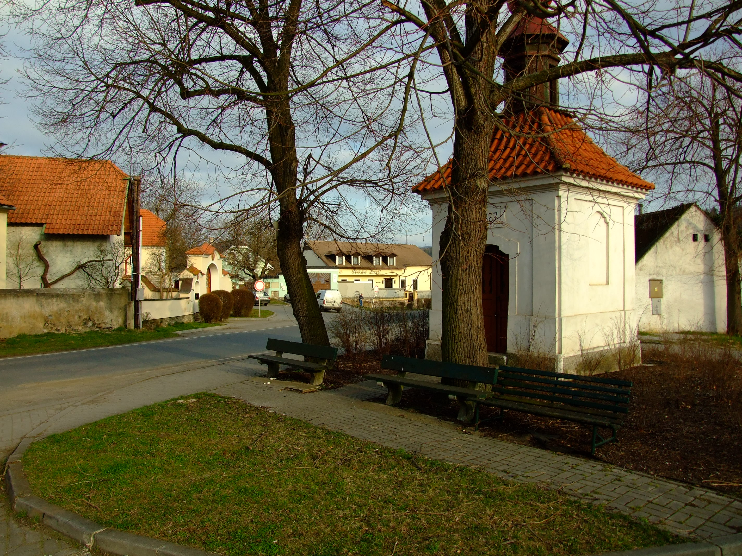 Hlásná Třebaň, Beroun District, Central Bohemian Region, Czech Republic. U Kapličky street, a chapel.